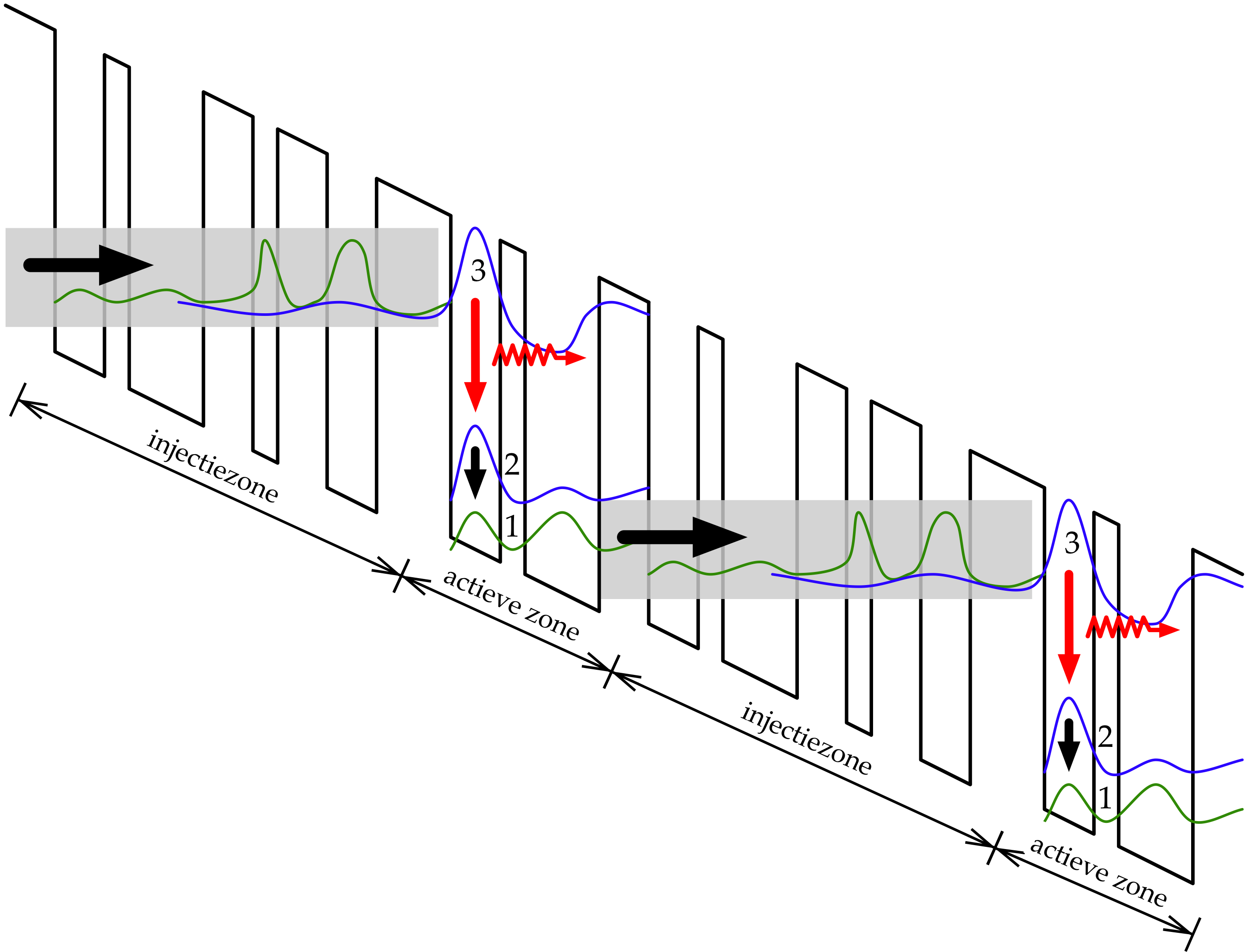 Diagram of two cycles of a typical quantum cascade laser structure.